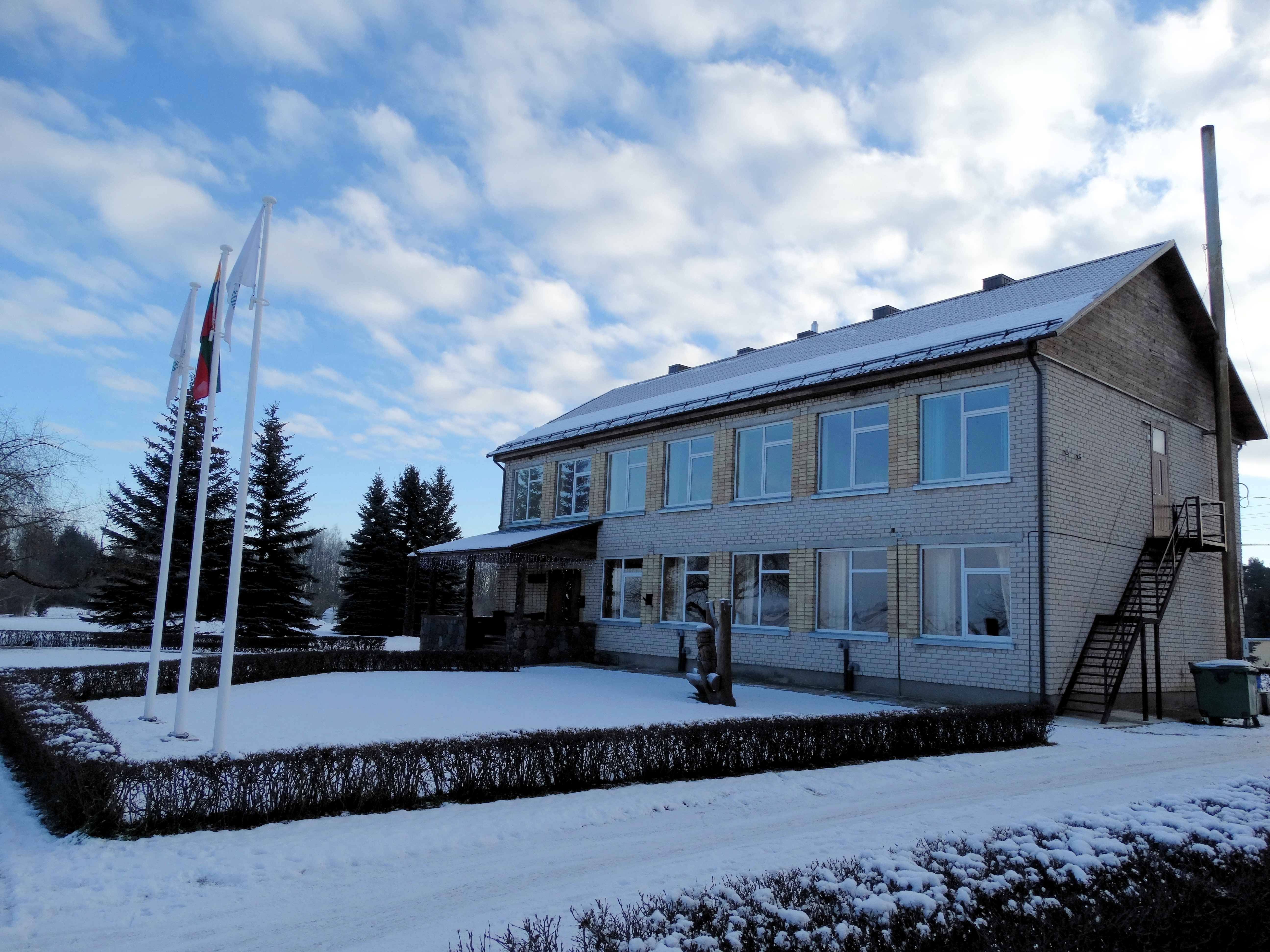 Forest enterprise in Linksmučiai, Pakruojis district, Lithuania